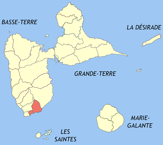 Location of Trois-Rivières within Guadeloupe